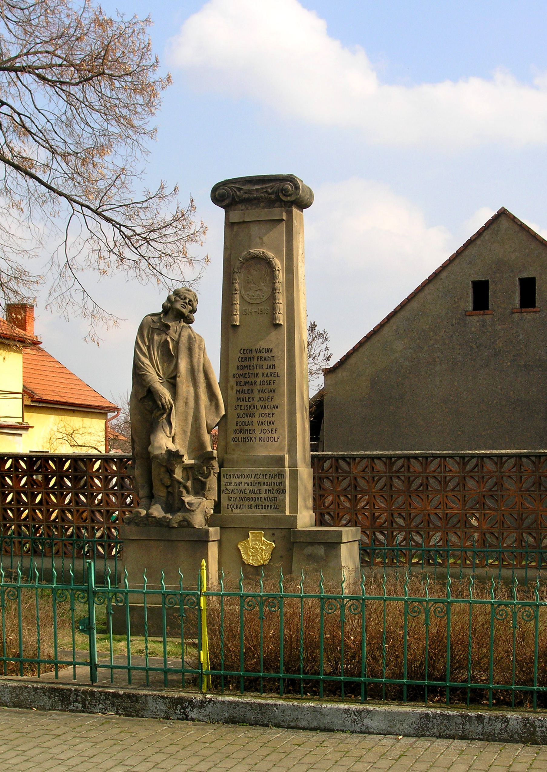 World War I memorial in Křenek village, Czech Republic